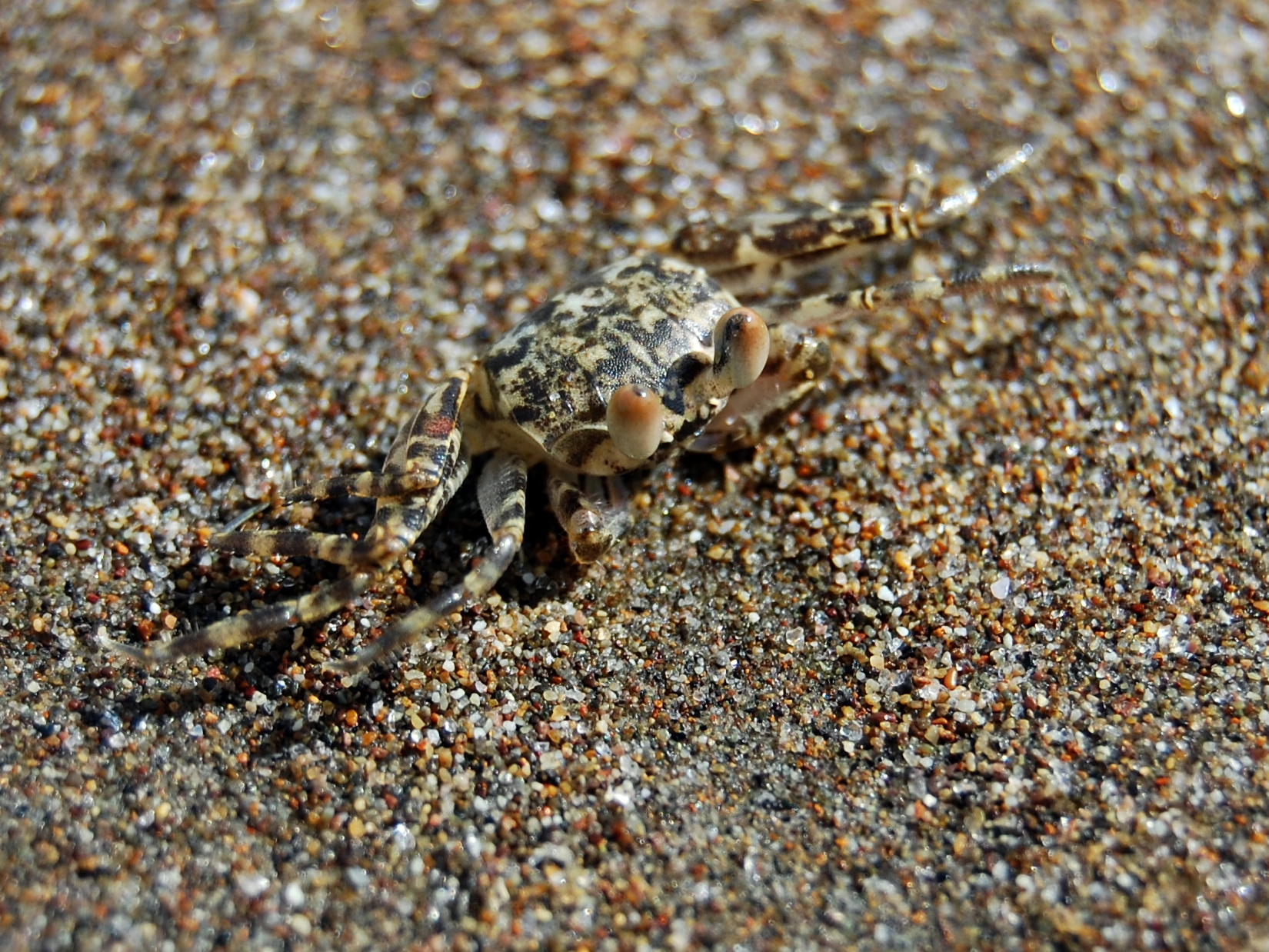 Kuhl's ghost crab, Ocypode kuhlii. Palabuhanratu, West Java, Indonesia.